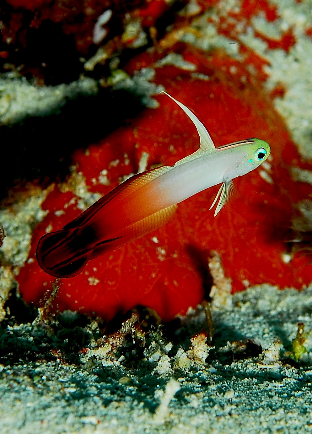 Nemateleotris magnifica (fire dartfish)